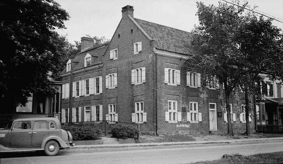 The Crailo, 10 Riverside Drive, Rensselaer, Rensselaer County, New York. HABS photo, then cropped to remove black border.